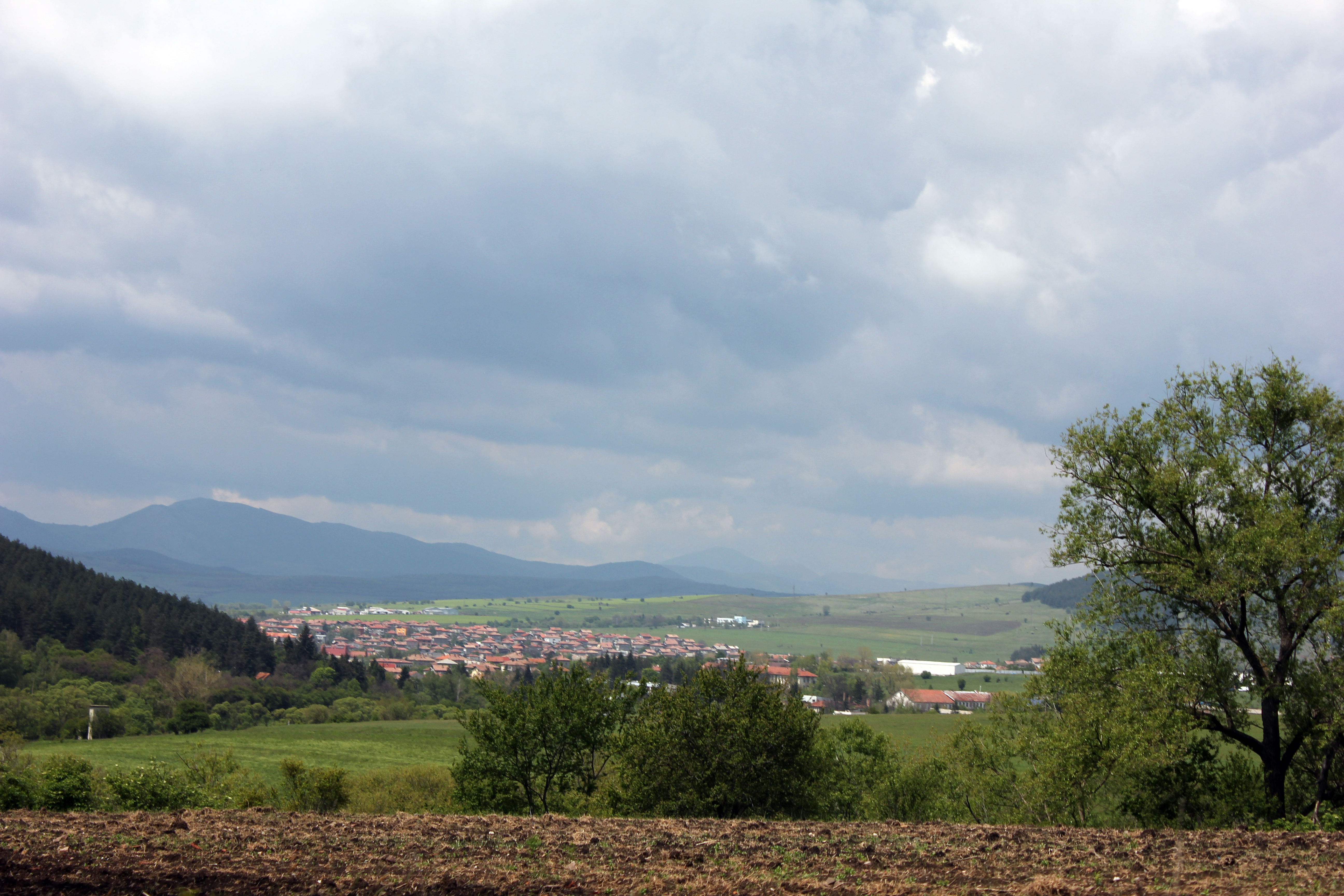 Vew of Breznik and the Breznik Basin